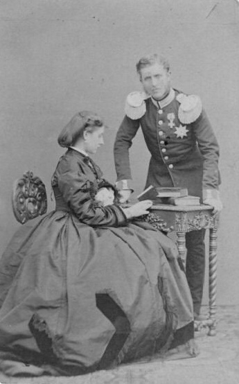 Leopold and his wife Antonia, Prince and Princess of Hohenzollern